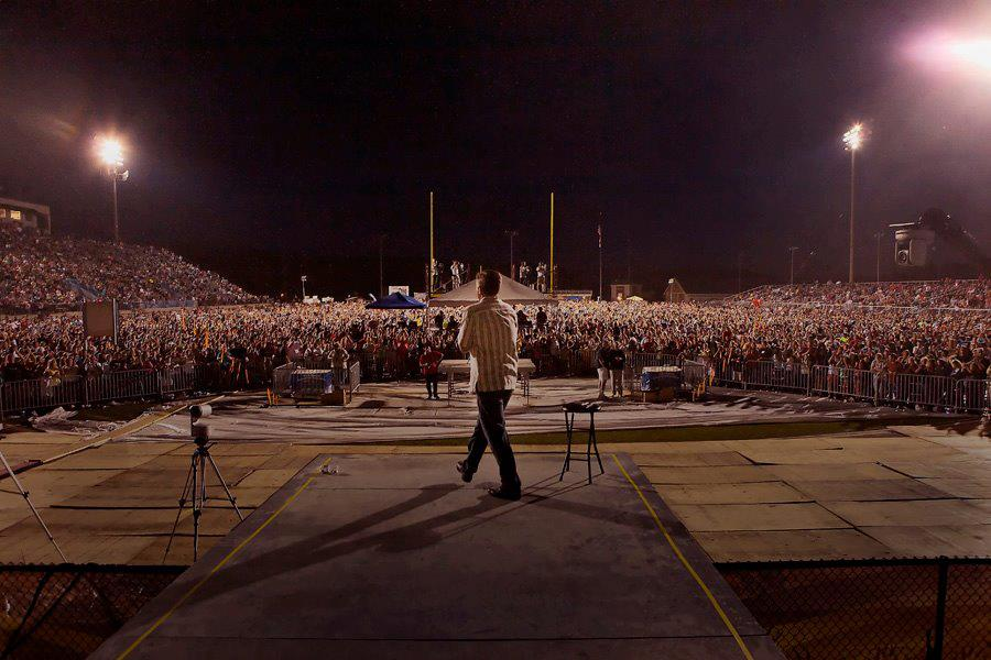 Scott Dawson Ministering to over 40,000 at 2011 Stadium Fest